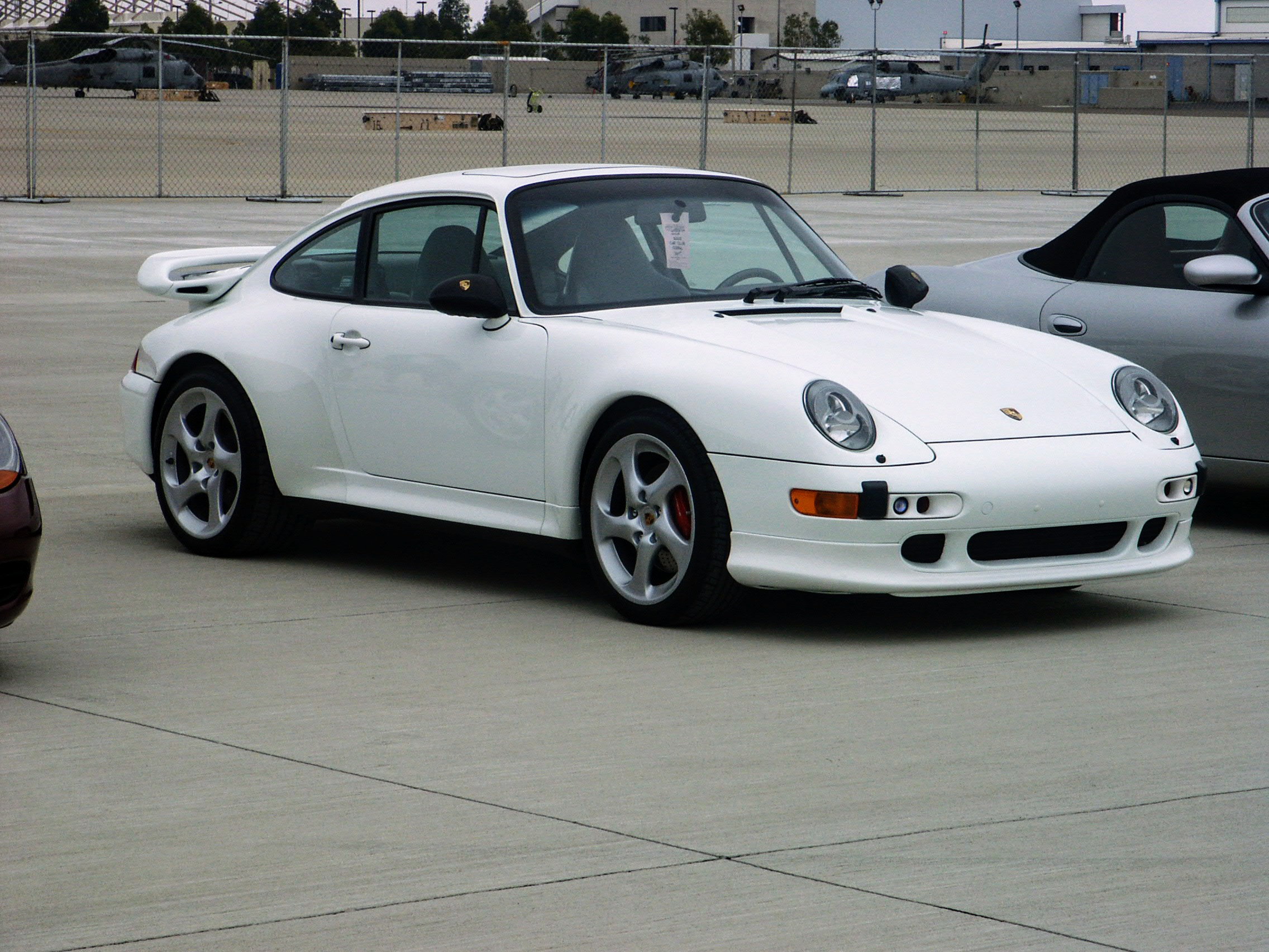 White Porsche 993 turbo coupé at the Festival of Speed.PICT0057